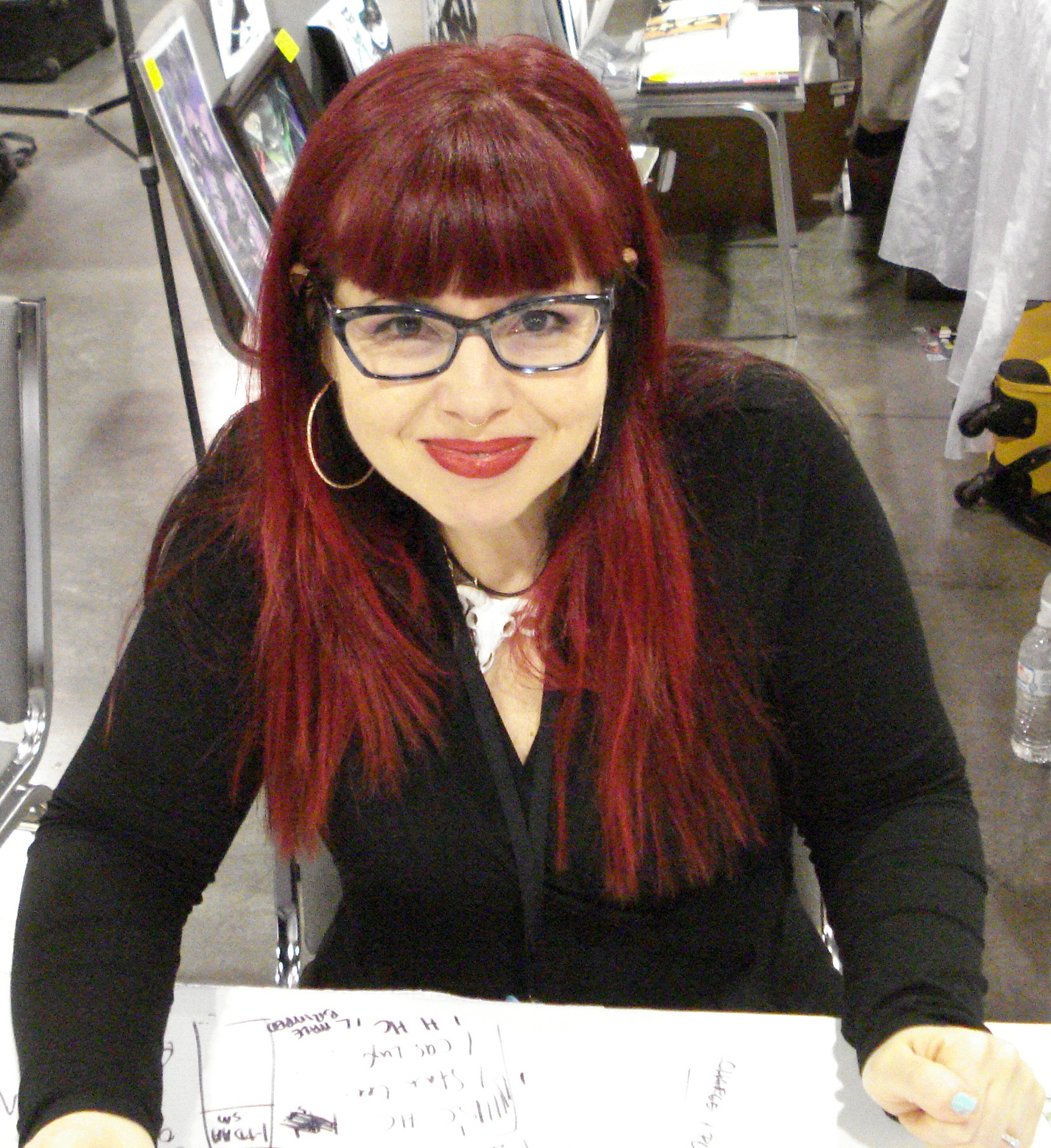 Photo of Kelly Sue DeConnick, taken at HeroesCon 14 in Charlotte, North Carolina on June 22, 2014.